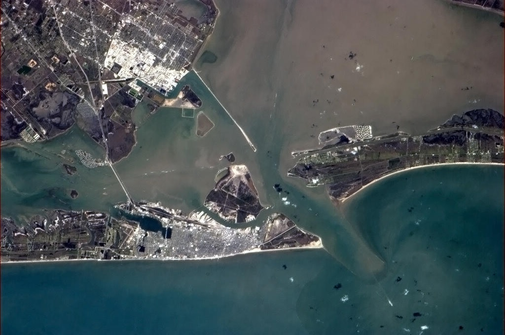 "Galveston, Texas, where my wife and I like to walk our dogs on the beach on Sunday mornings." Caption by astronaut Chris Hadfield on board the International Space Station.